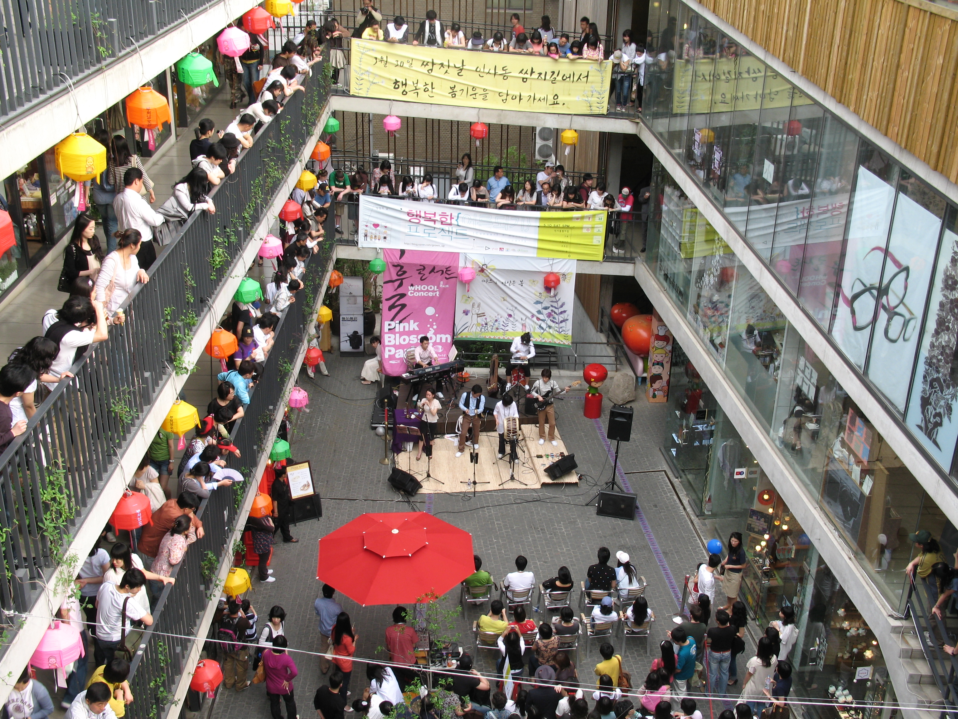 An event at Ssamzie Market in Insadong, Seoul, South Korea